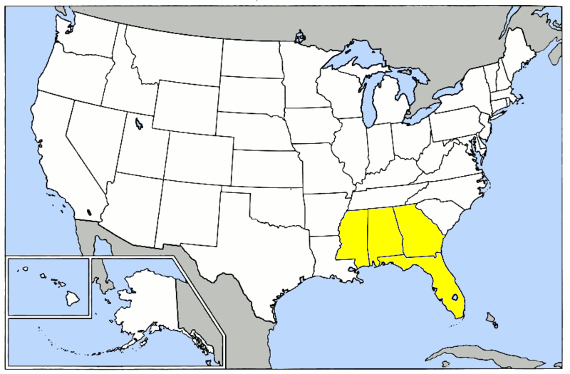 28 Flying Training Wing (World War II) - Map Based upon for basemap; Lineage and History of 31st Flying Training Wing (World War II); United States Air Force Historical Research Agency Document, Maxwell AFB, Alabama